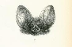 Nyctophilus timoriensis, head